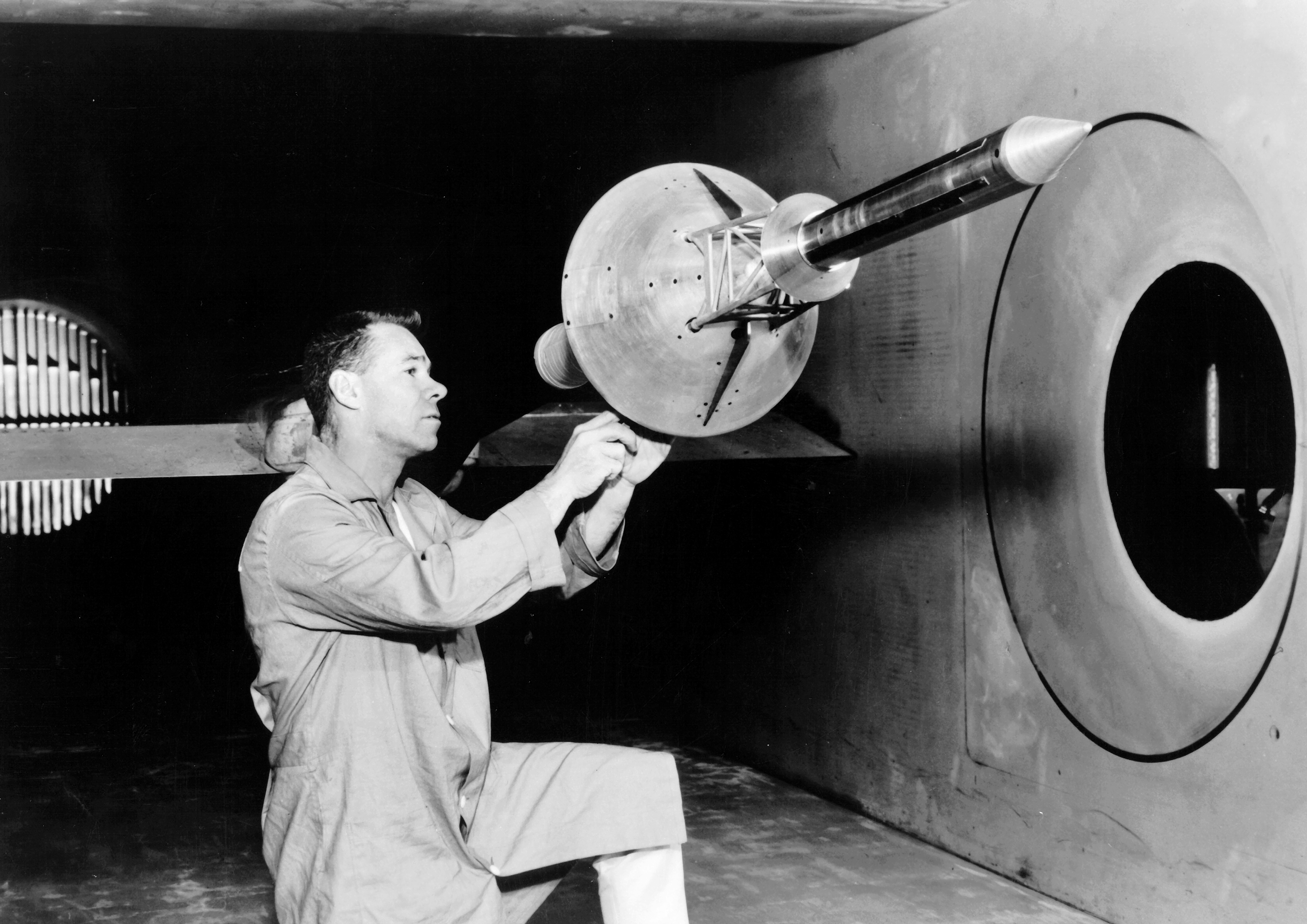 A technician mounts a model of the Apollo Launch Escape System (LES) in the Unitary Wind Tunnel at the NASA Ames Research Center, Moffett Field, California. The LES was a tower like structure consisting of four solid propellent motors mounted atop the Apollo Command Module. In the event of a contingency, (booster failure or some other imminent failure) the LES would be commanded to ignite, subsequently removing the Command Module from the Saturn launch vehicle.